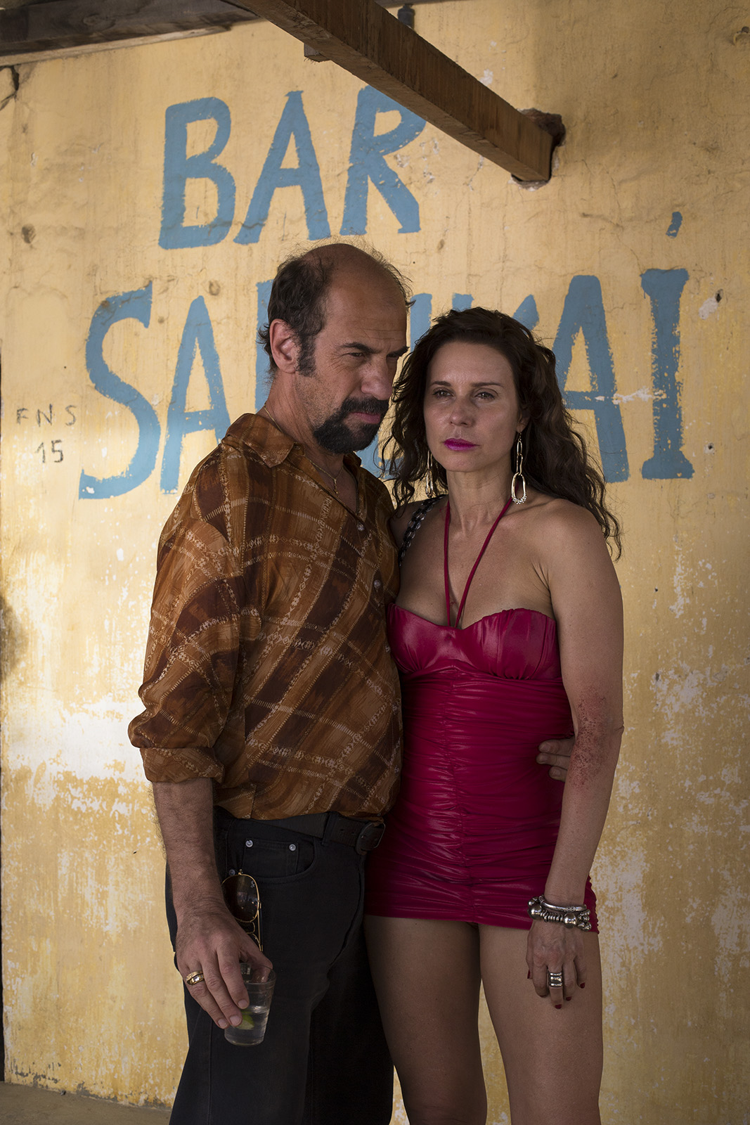 The Brazilian actors Roberto Bomtempo and Paula Burlamaqui, at the Brazilian motion picture "Por trás do céu" (Behind the sky)